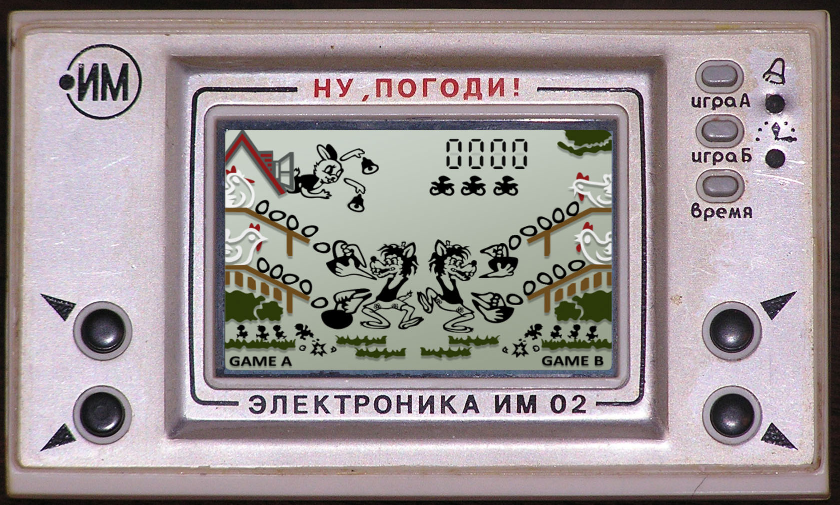 Nu, pogodi! Electronika IM-02